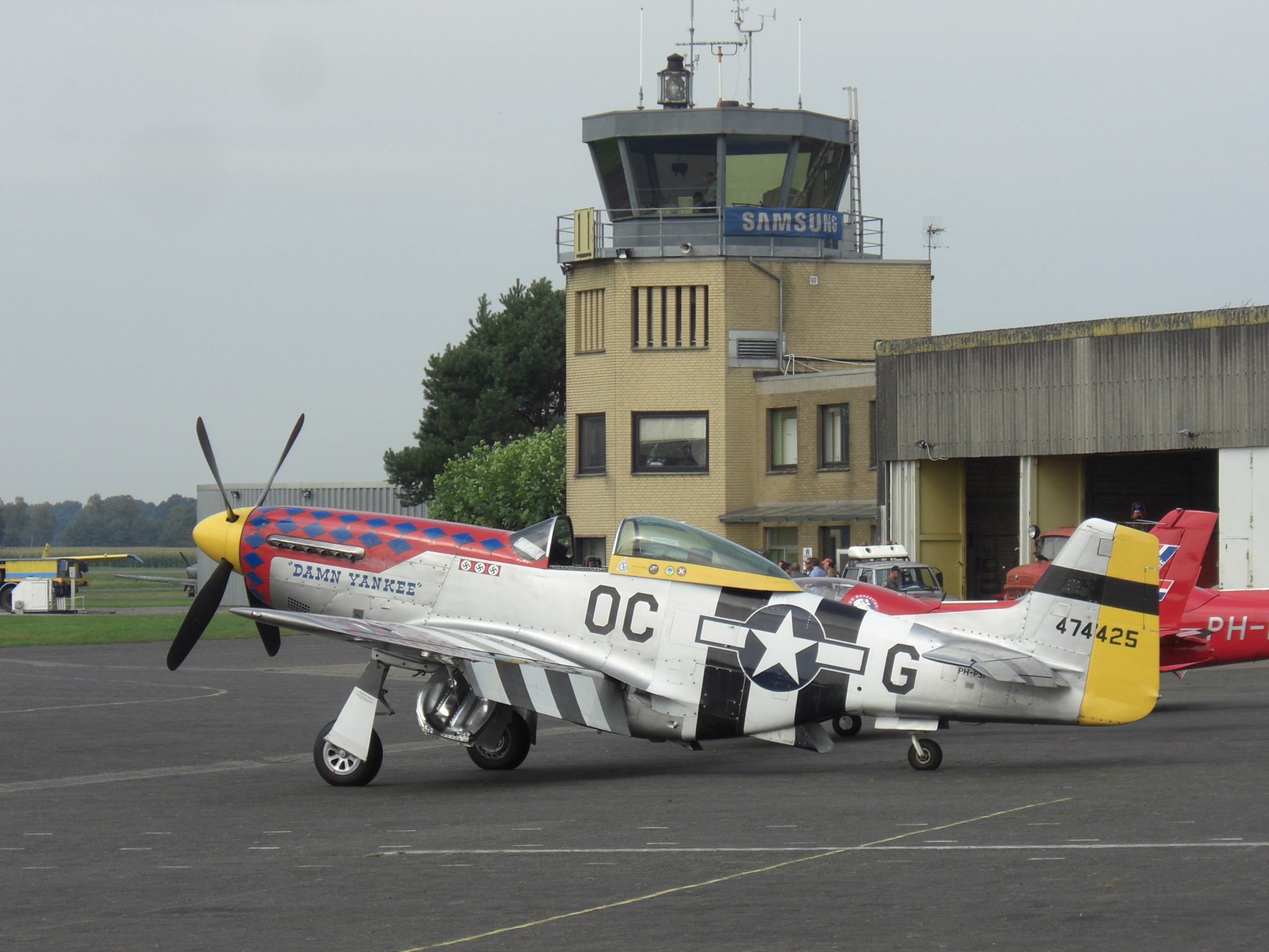 Flugplatz Stadtlohn-Vreden